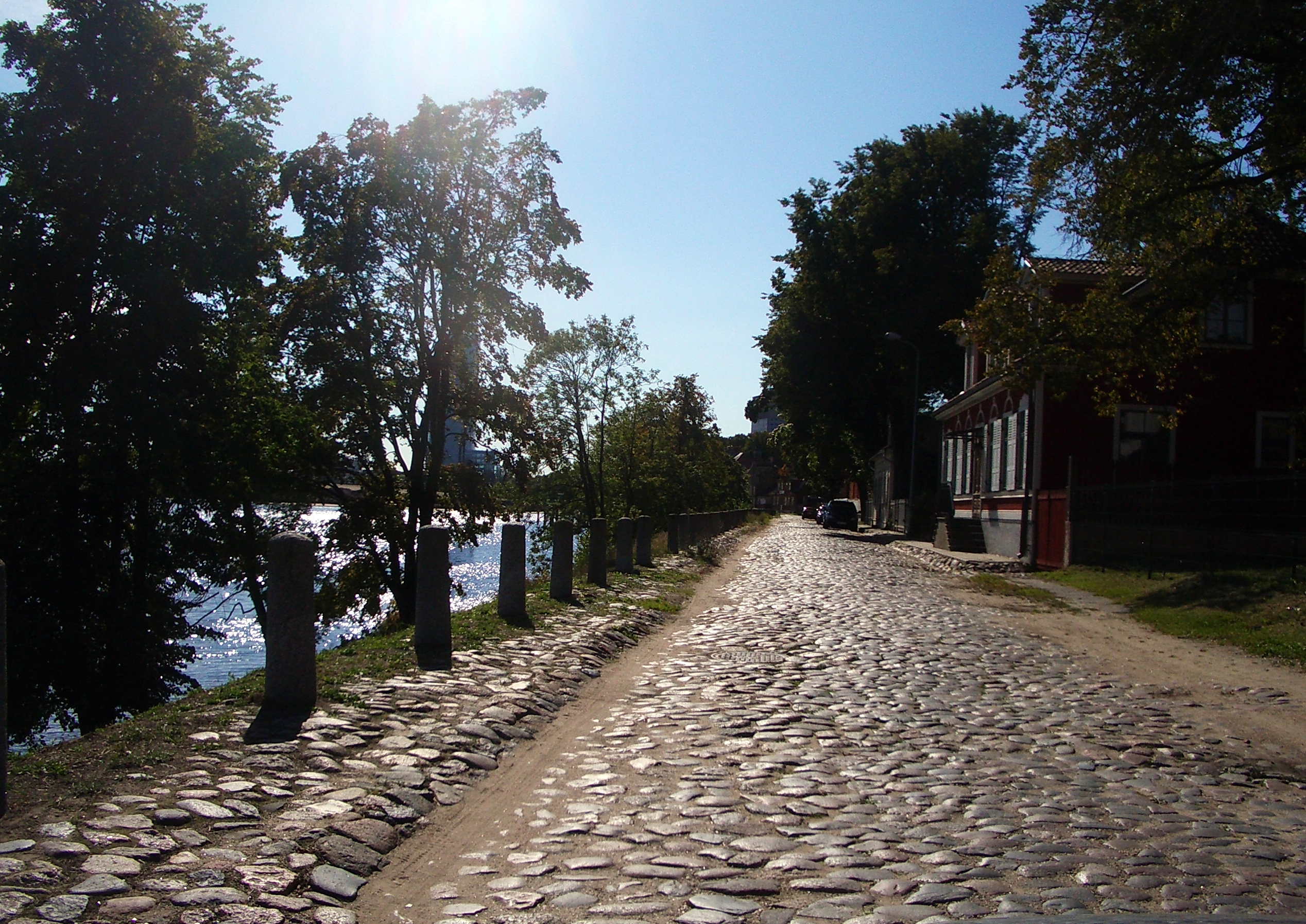 Brick pavement at Ķīpsala